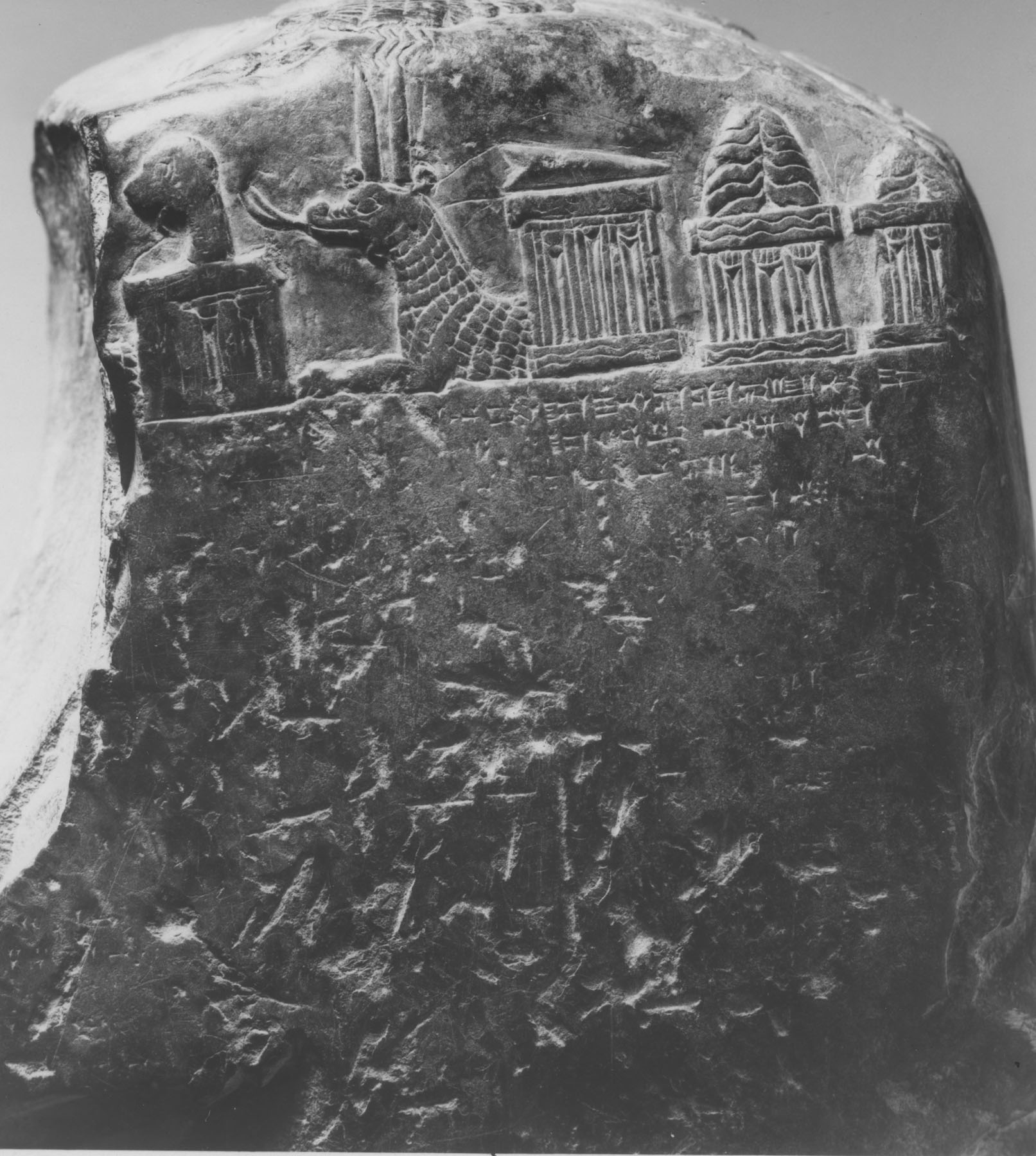 A "kudurru," the Akkadian term for boundary stone, combines images of the king, gods, and divine symbols with a text recording royal grants of land and tax exemption to an individual. While the original was housed in the temple, a copy of the document was kept at the site of the land in question. This example was found at the temple of Esagila, the primary sanctuary of the god Marduk. The king Marduk-nadin-ahhe is depicted with his left hand raised in front of his face; he wears the tall Babylonian feathered crown and an elaborately decorated garment with a honeycomb pattern. On the top are a sun disk, star, crescent moon, and scorpion, representing deities who witnessed the land grant and tax exemption. A snake-dragon deity emerges from a row of altars shaped like temple façades along the back.